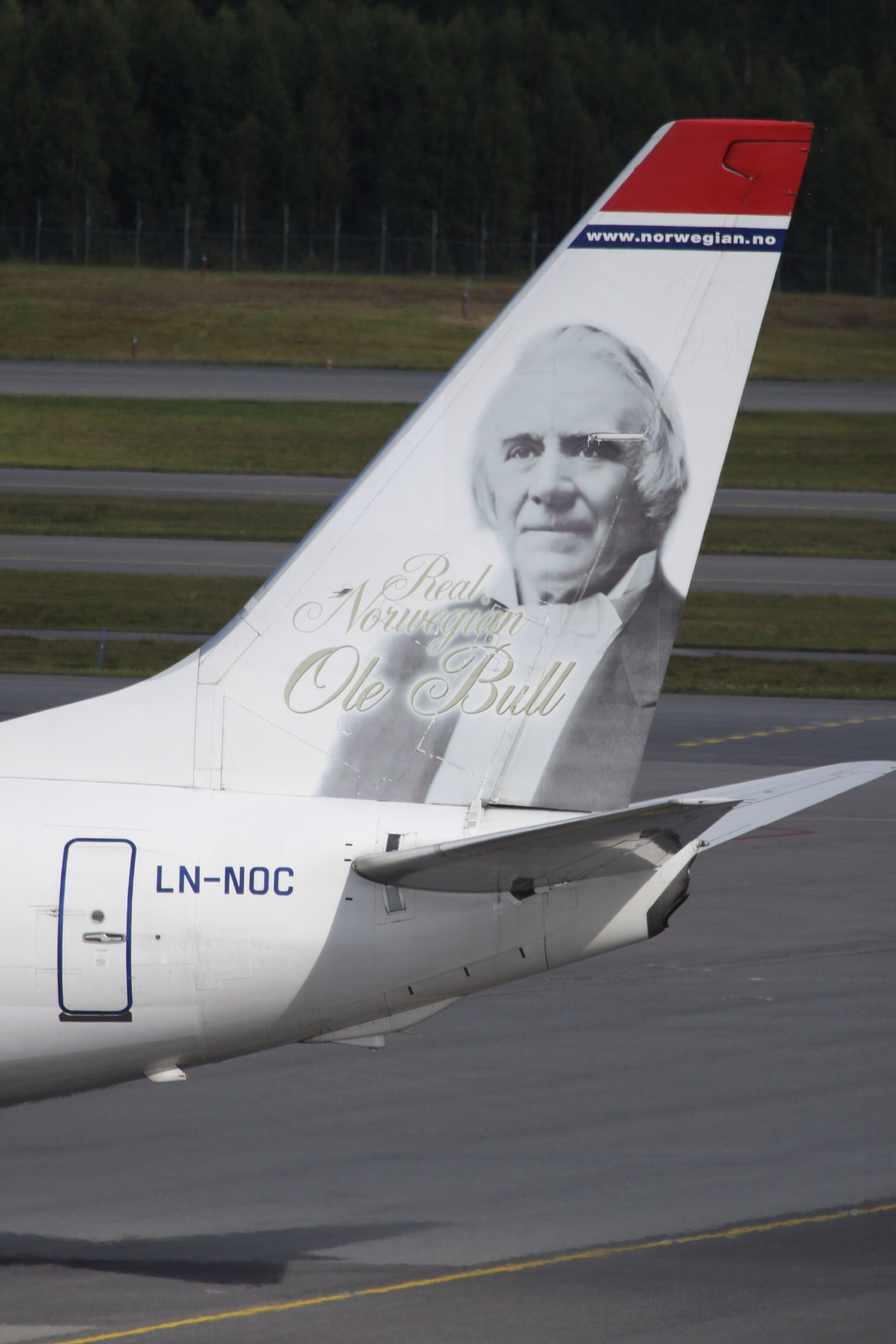 At Oslo Gardermoen